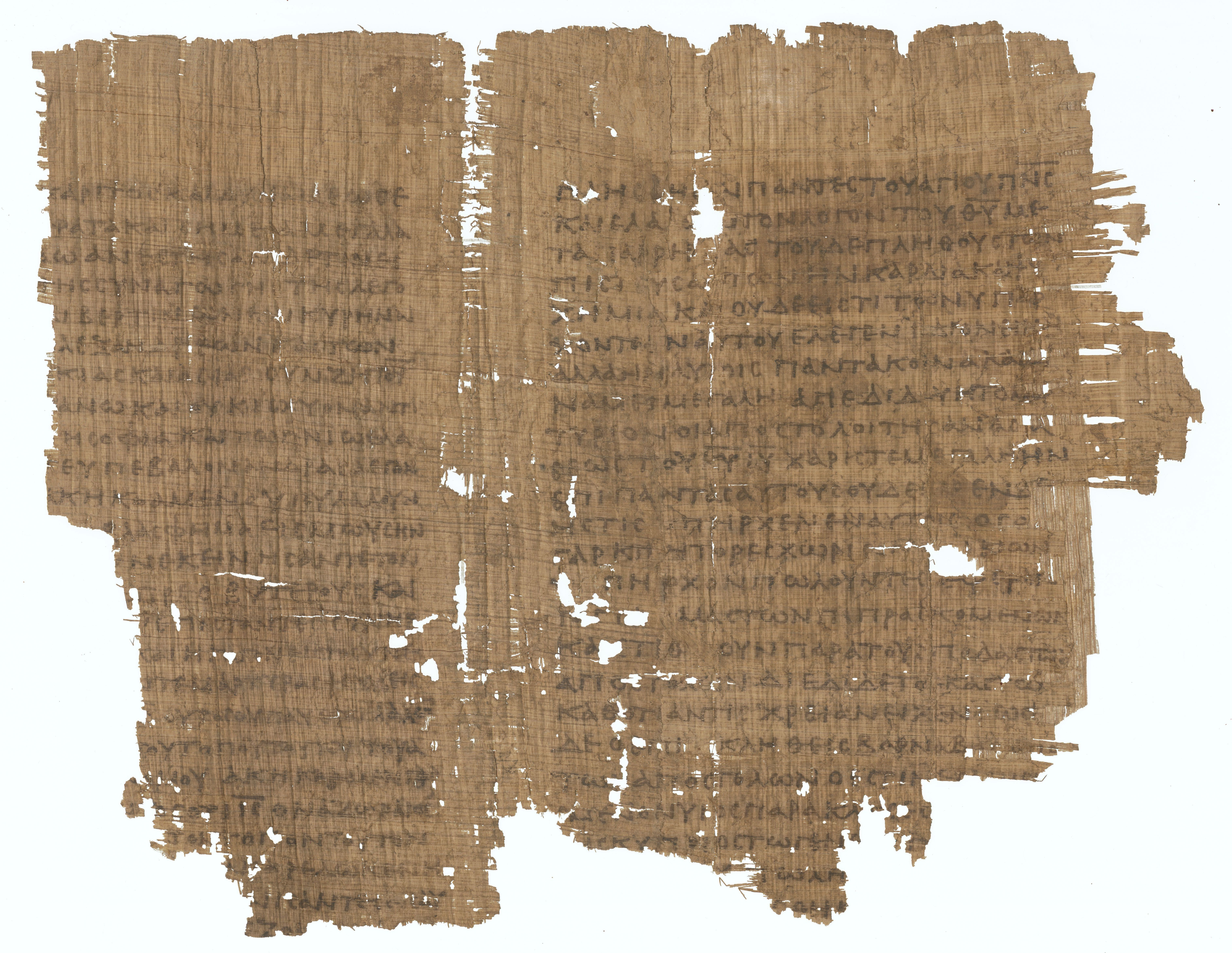 Papyrus 8 - Staatliche Museen zu Berlin inv. 8683 - Acts of the Apostles 4, 5 - recto